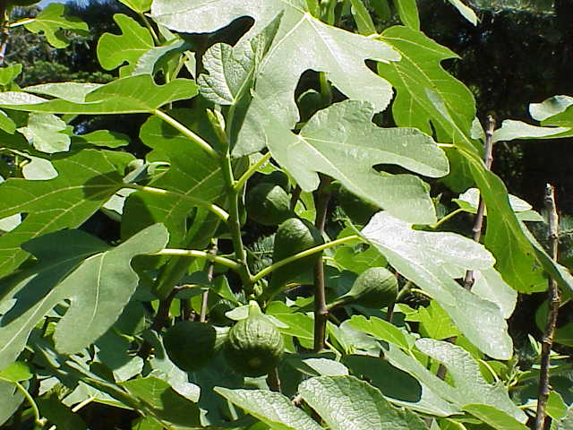 Species: Ficus carica Family: Moraceae Image No. 9